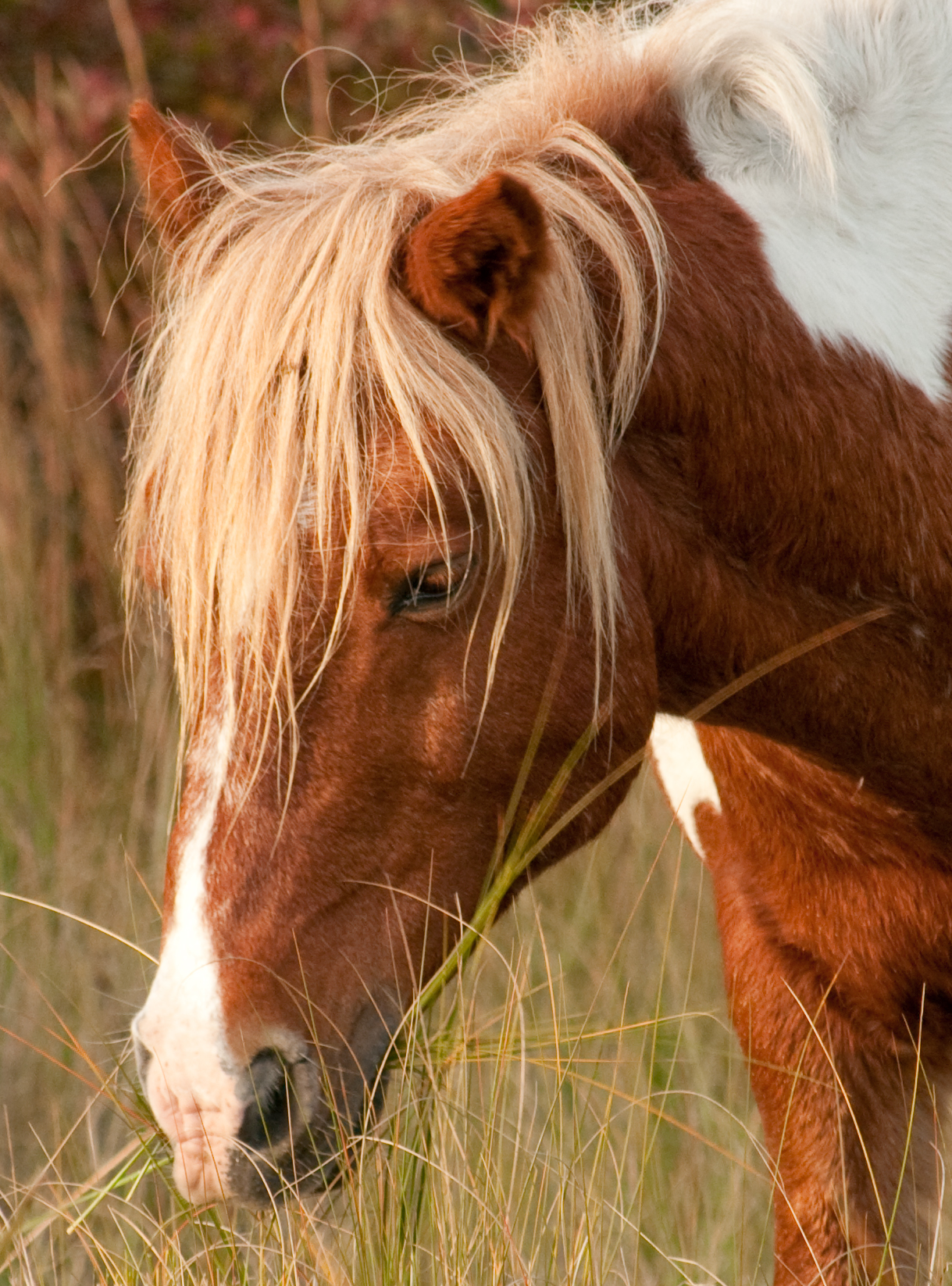 A wild pony grazes on Assateague Island National Seashore